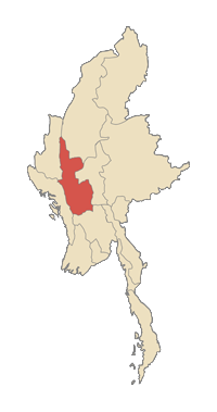 Magway division in Myanmar